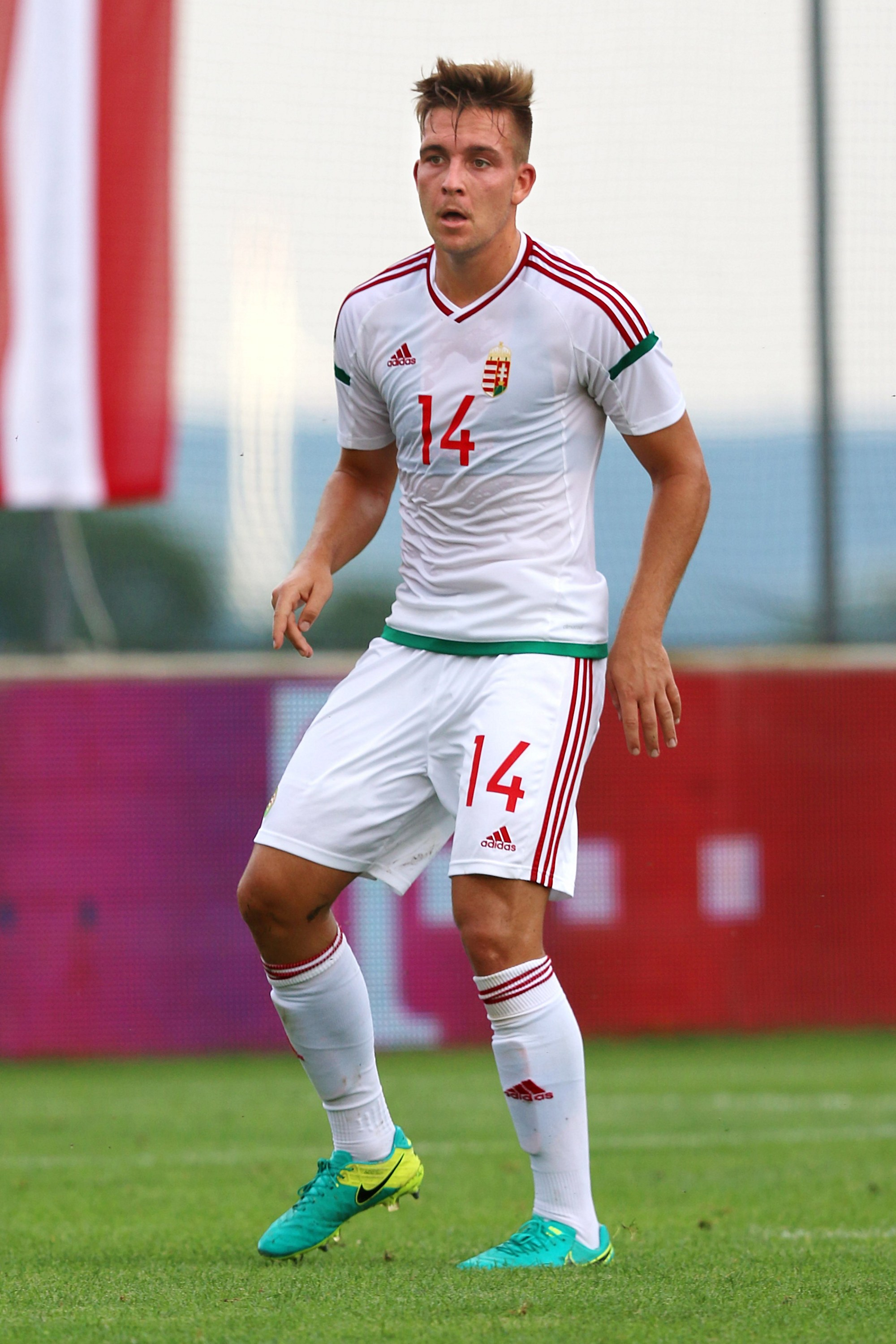 Friendly match: Austria U-21 (red shirts) vs. Hungary U-21 (white shirts) at 12. June 2017 in the Sonnenseestadion in Ritzing 2:1 (1:1) – The photo shows Bence Lenzsér (Paksi FC)